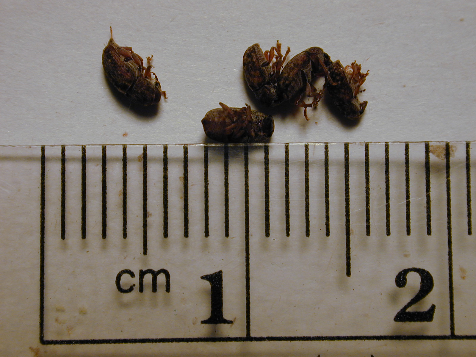 Acacia koaia (Bruchid spots 020518 6 Bruchidae Coleoptera ex seeds). Location: Maui, Puu o Kali